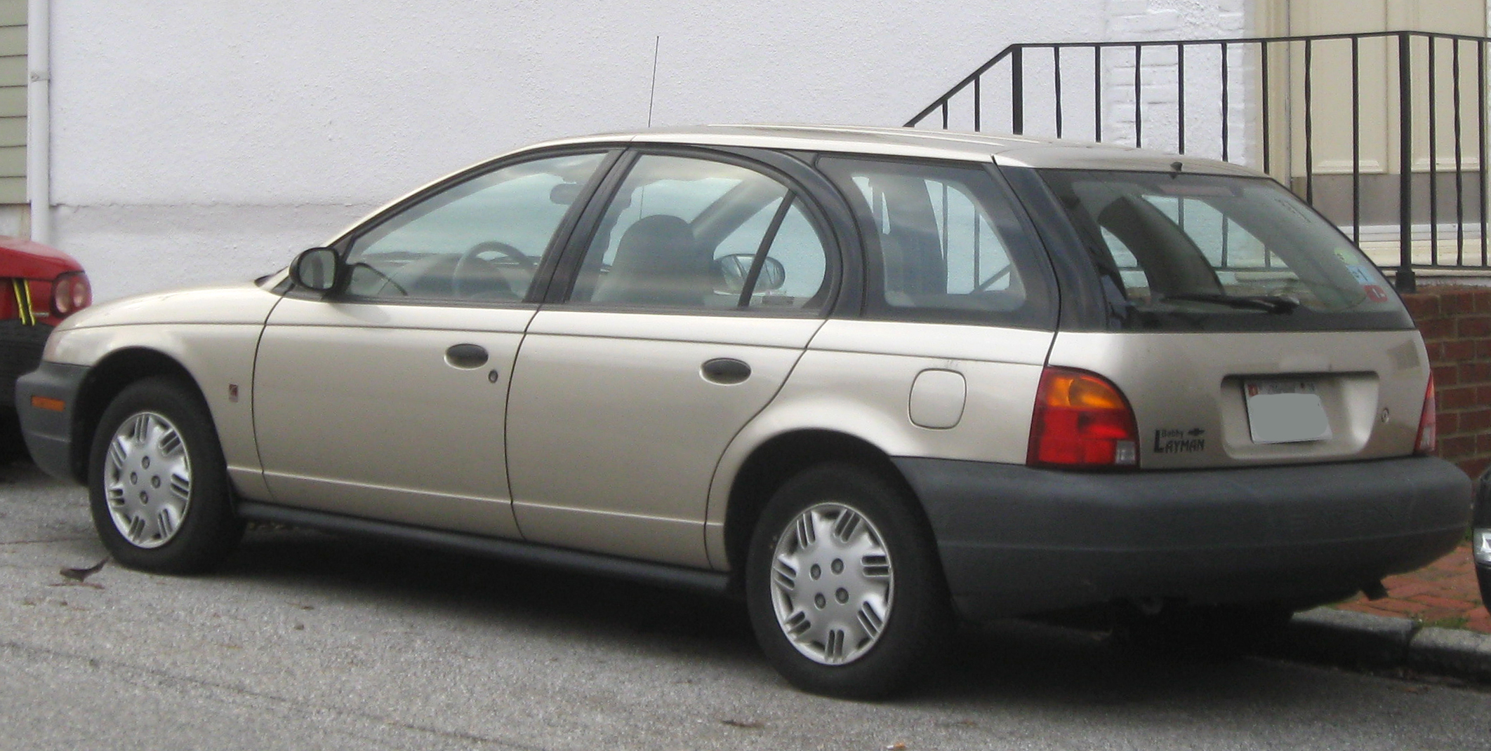 1996-1999 Saturn SW1 photographed in Annapolis, Maryland, US.